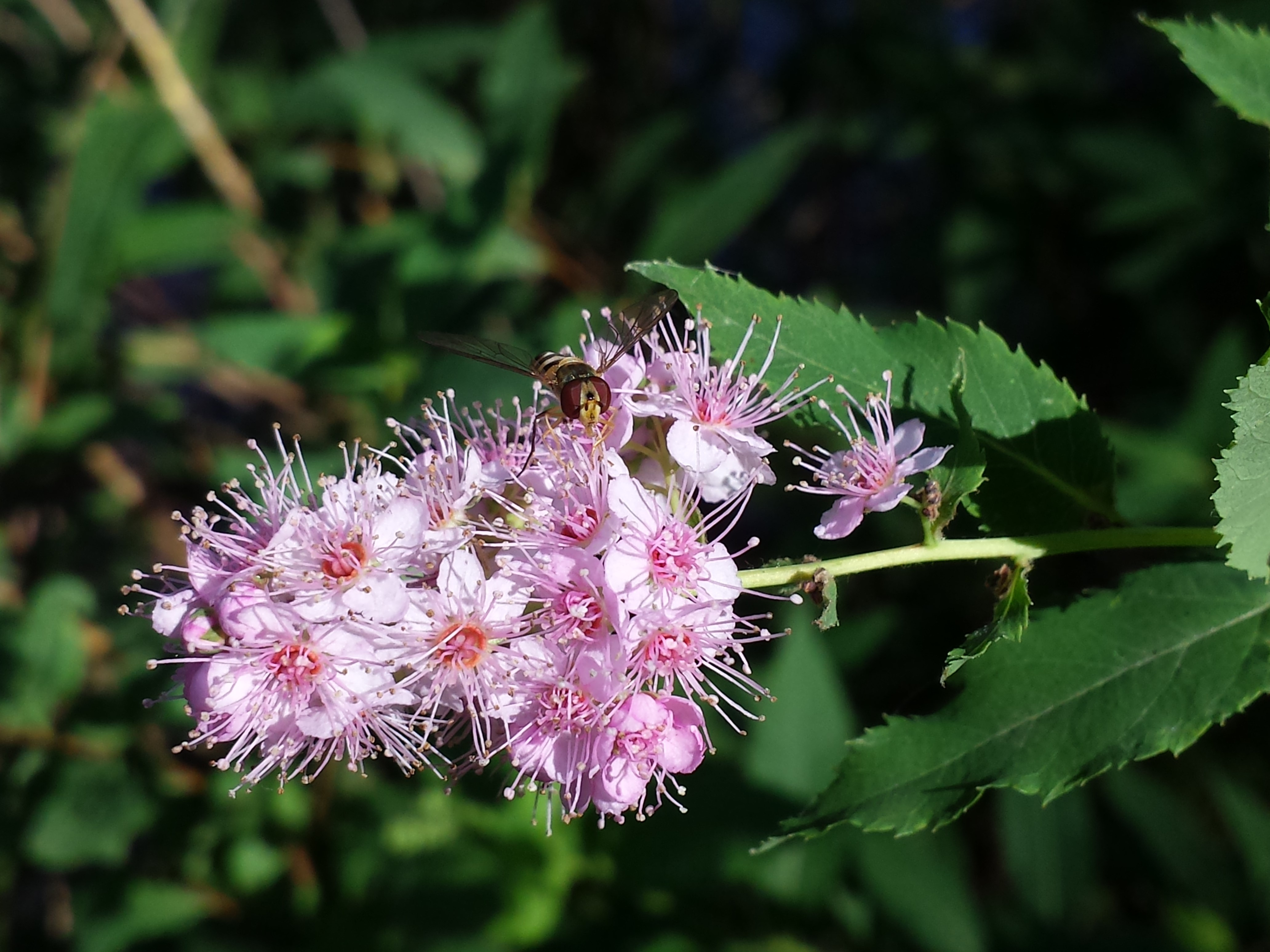 Inflorescence Taxonym: Spiraea salicifolia ss Fischer et al. EfÖLS 2008 ISBN 978-3-85474-187-9 Location: Schütt next to Rappottenstein, district Zwettl, Lower Austria - ca. 640 m a.s.l. Habitat: shore of a river